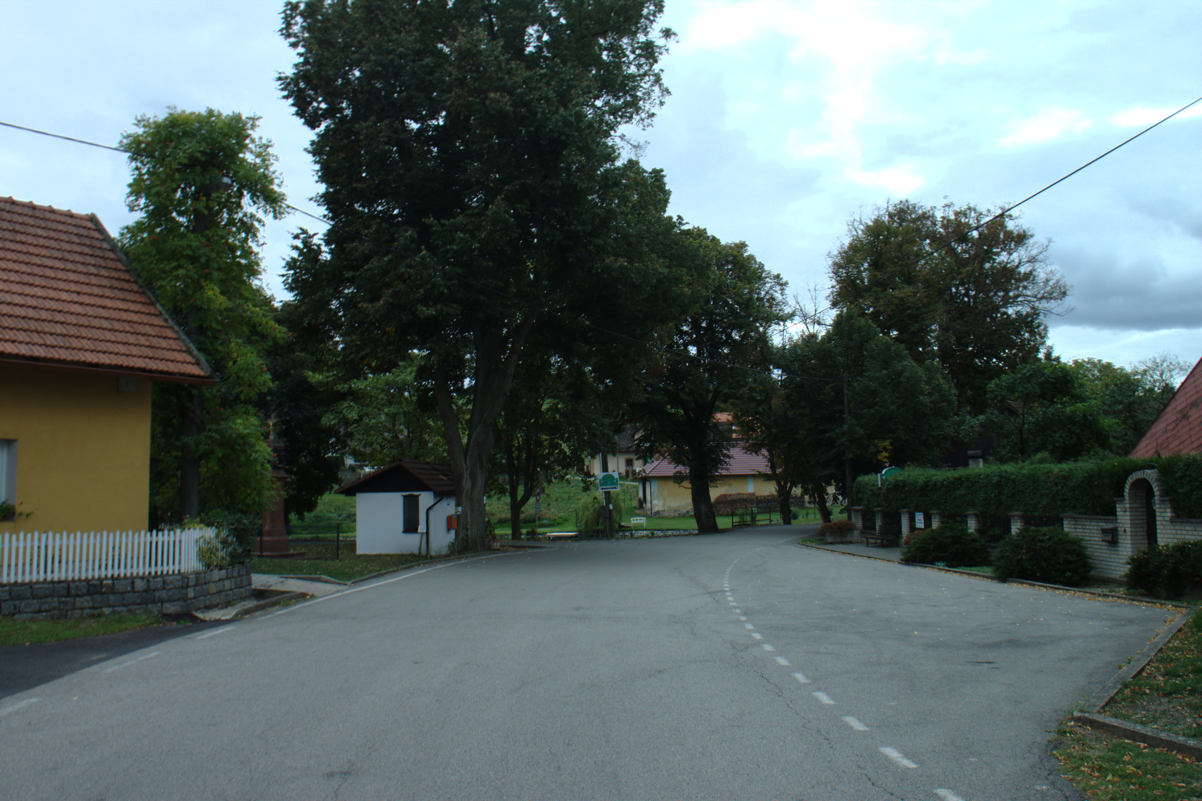 A common in the village of Vestec, Central Bohemia, CZ